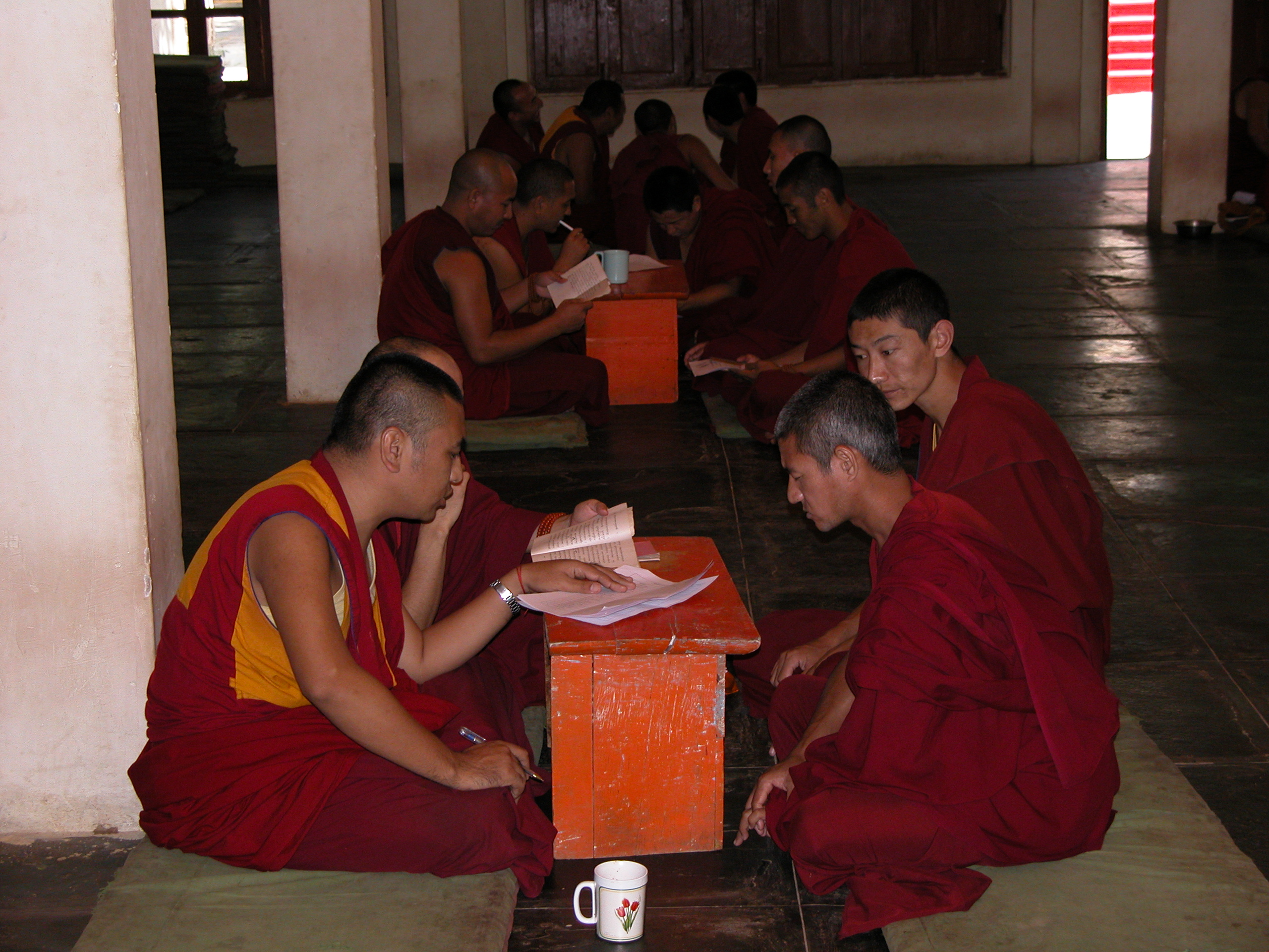 Buddhist Gelug monks at Drepung Loseling monastery in Mundgod, Karnataka, India, studying for the Geshe exam under the guidance of another Geshe